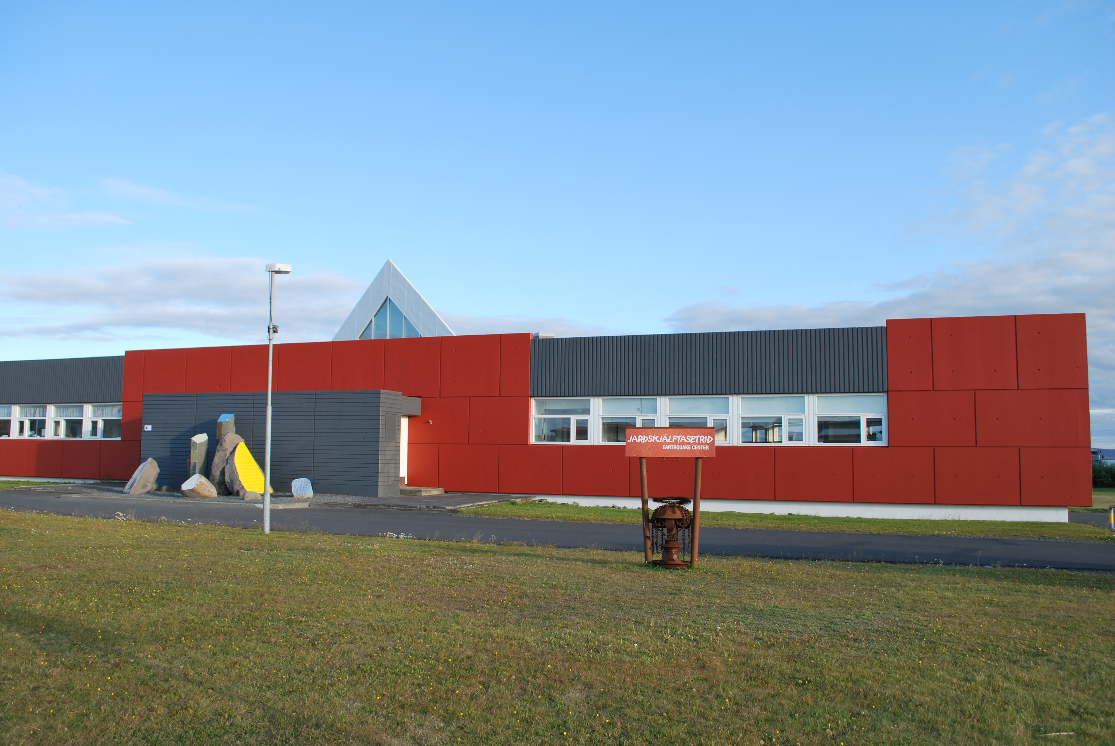 Kópasker village in northeast part of Iceland. School.